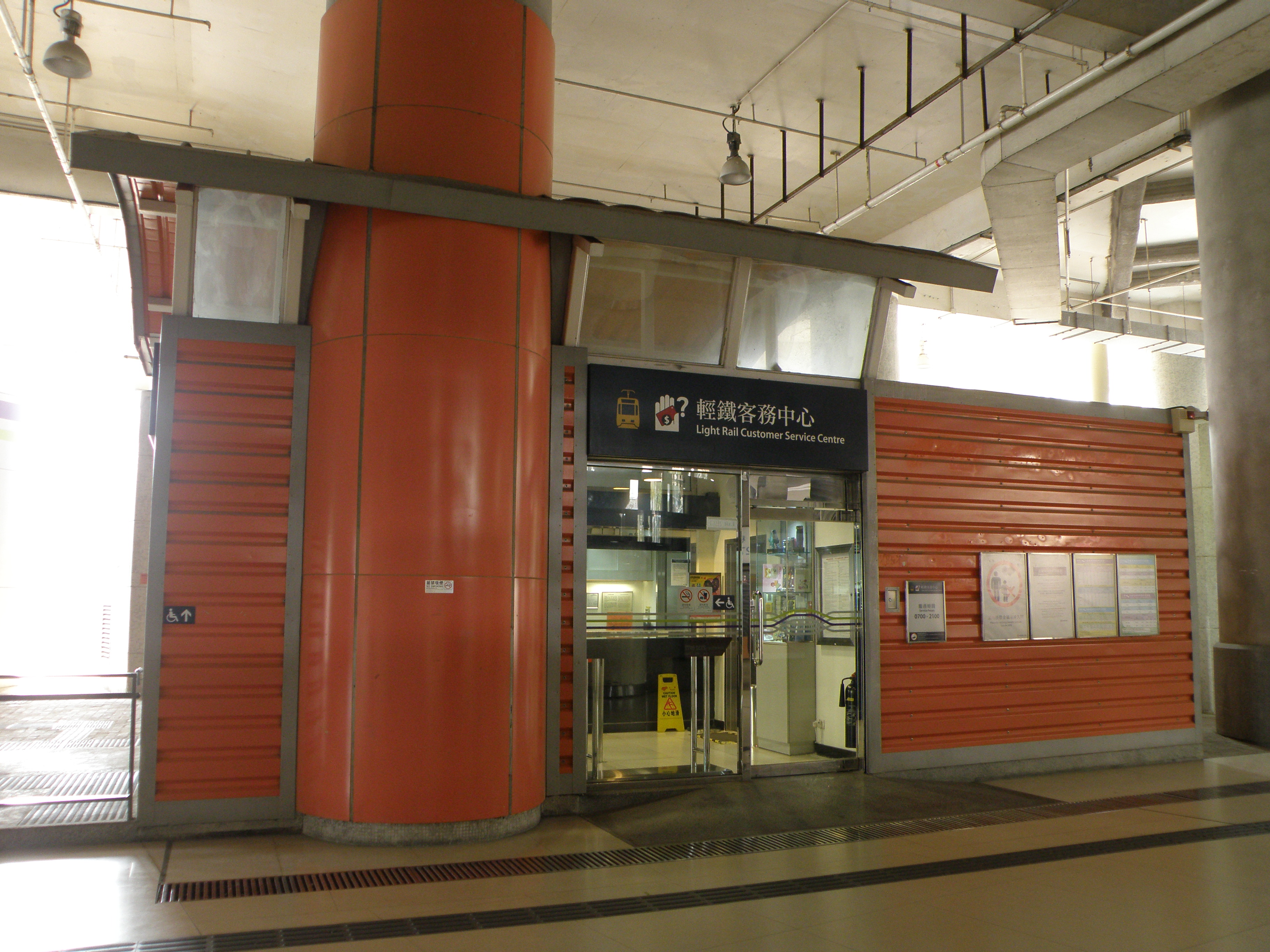 Light Rail Customer Service Centre in Tuen Mun Ferry Pier, Hong Kong.